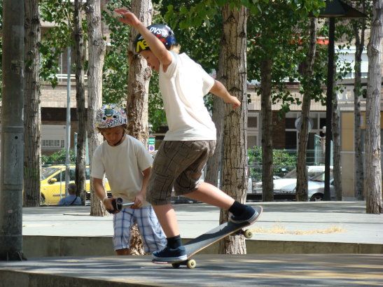 Oscar Berg performing a skateboard wheelie in Barcelona, Spain.